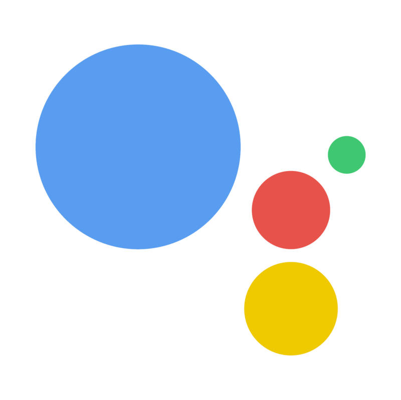 2016 Logo of the new Google Assistant